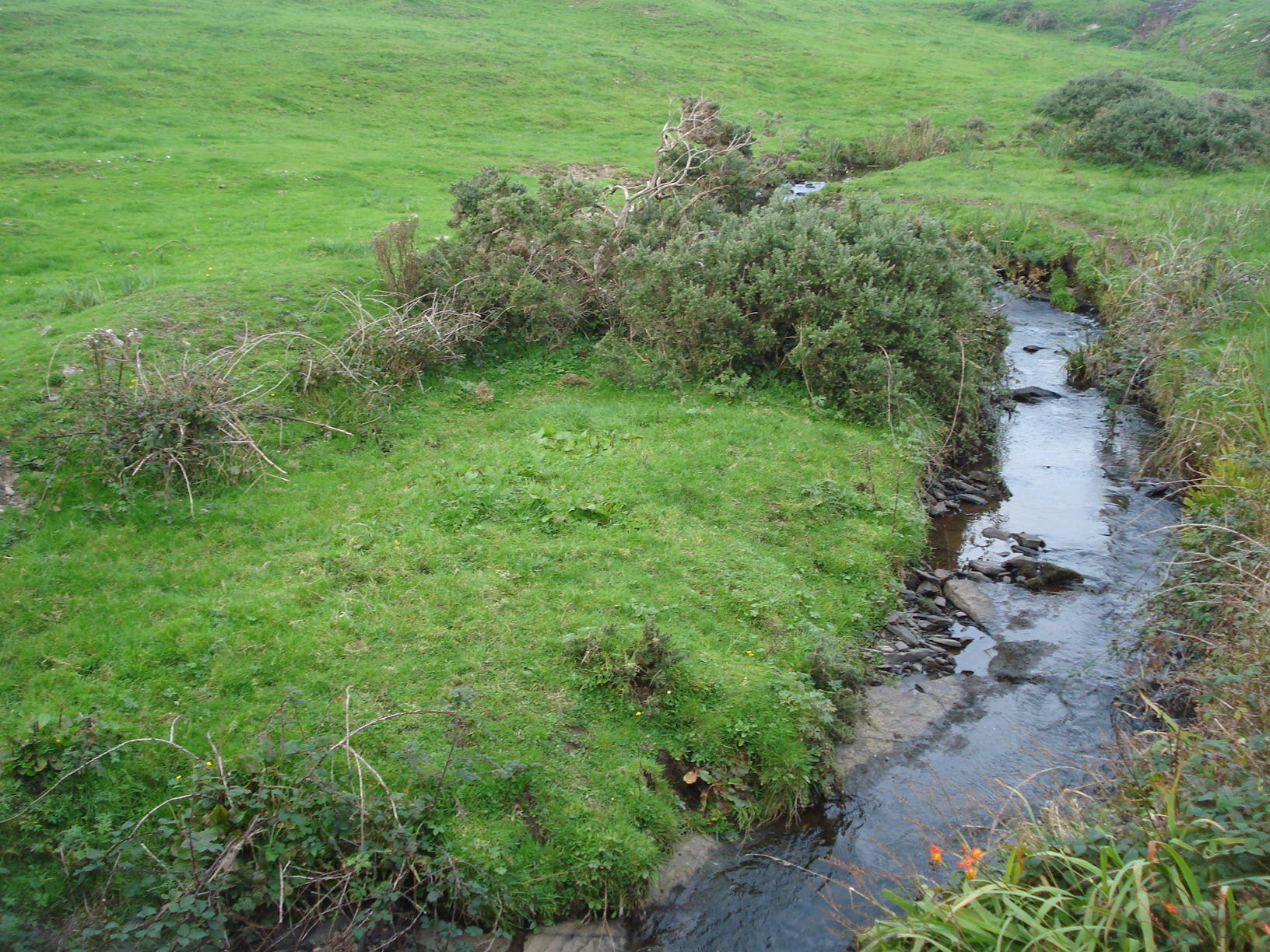 Carrowkeel River, Milltown Malbay